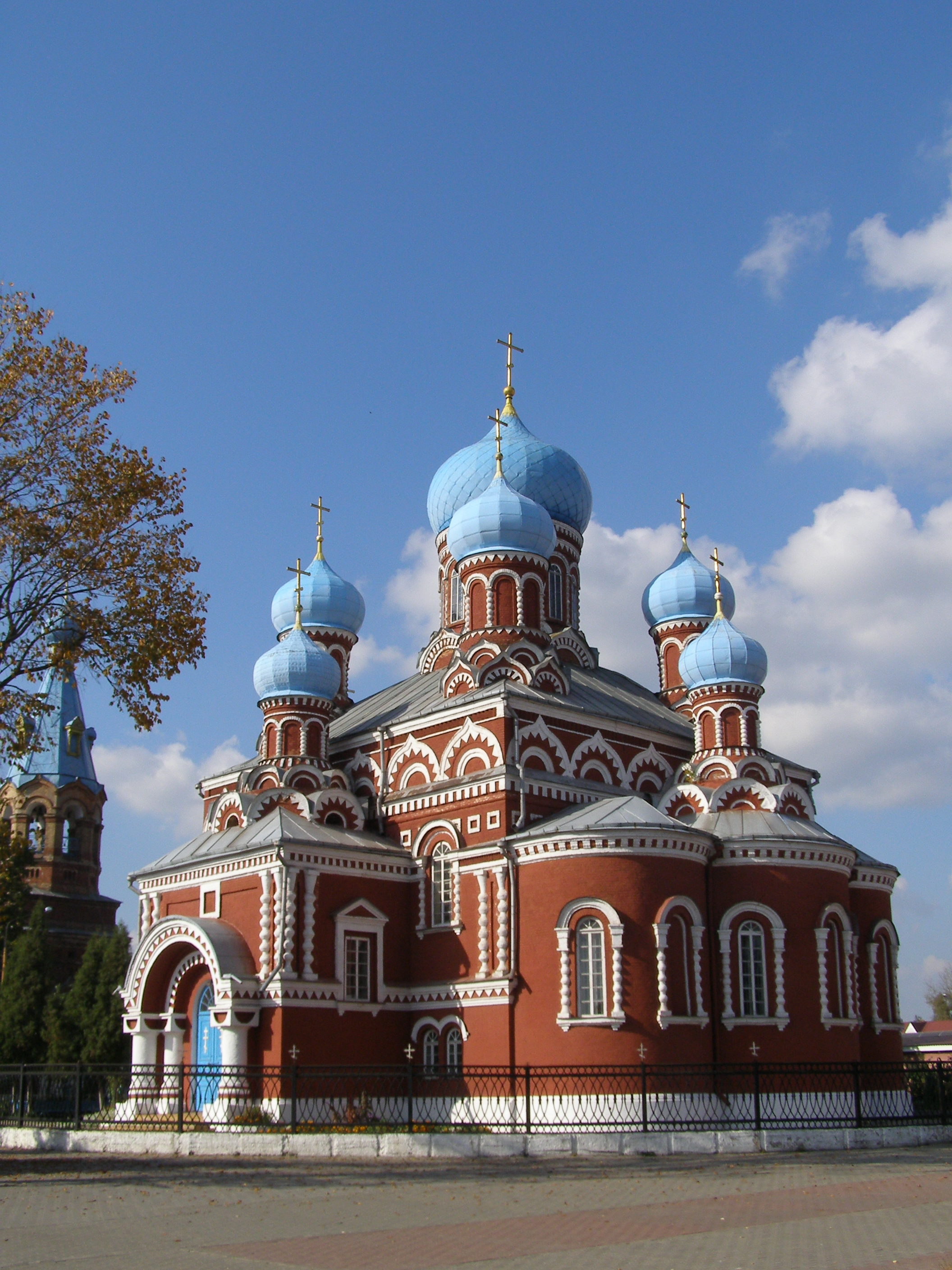 Ortodox Church in Barysaŭ